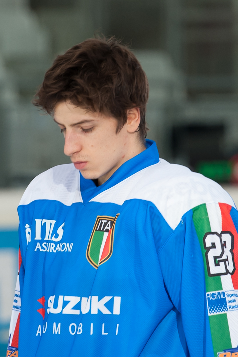 Euro Ice Hockey Challenge Vienna, February 7, 2015, Italy vs. Slovenia